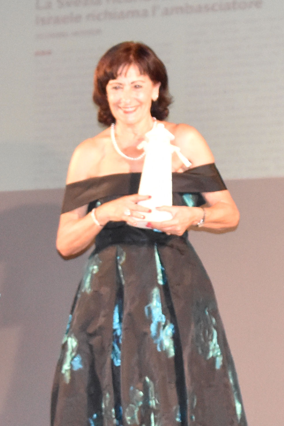 Maria Cristina Giongo - premio Salento - giornalisti del Mediterraneo - Otranto (Italy) - 2016-09-11